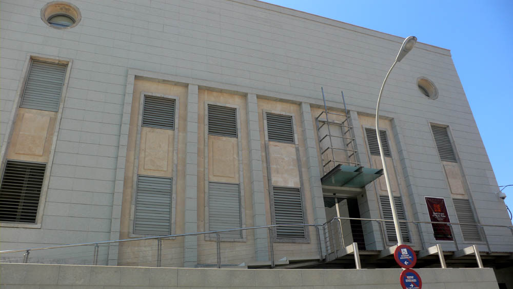 Museum of the phoenician necropolis of Puig des Molins in Ibiza (Spain)